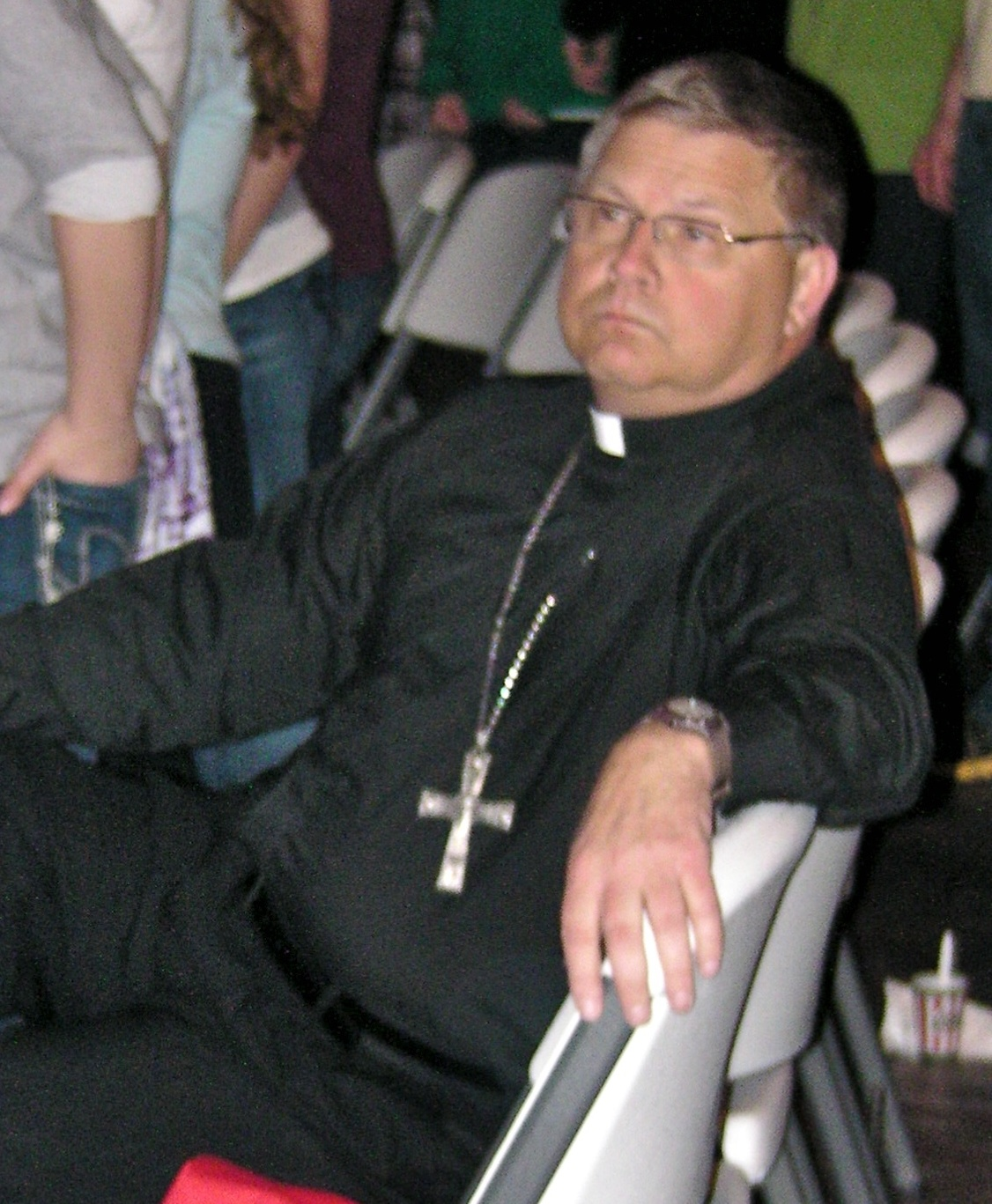 Bishop Richard Stika, Diocese of Knoxville